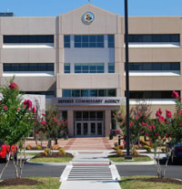 DeCA HQ building Fort Lee, VA